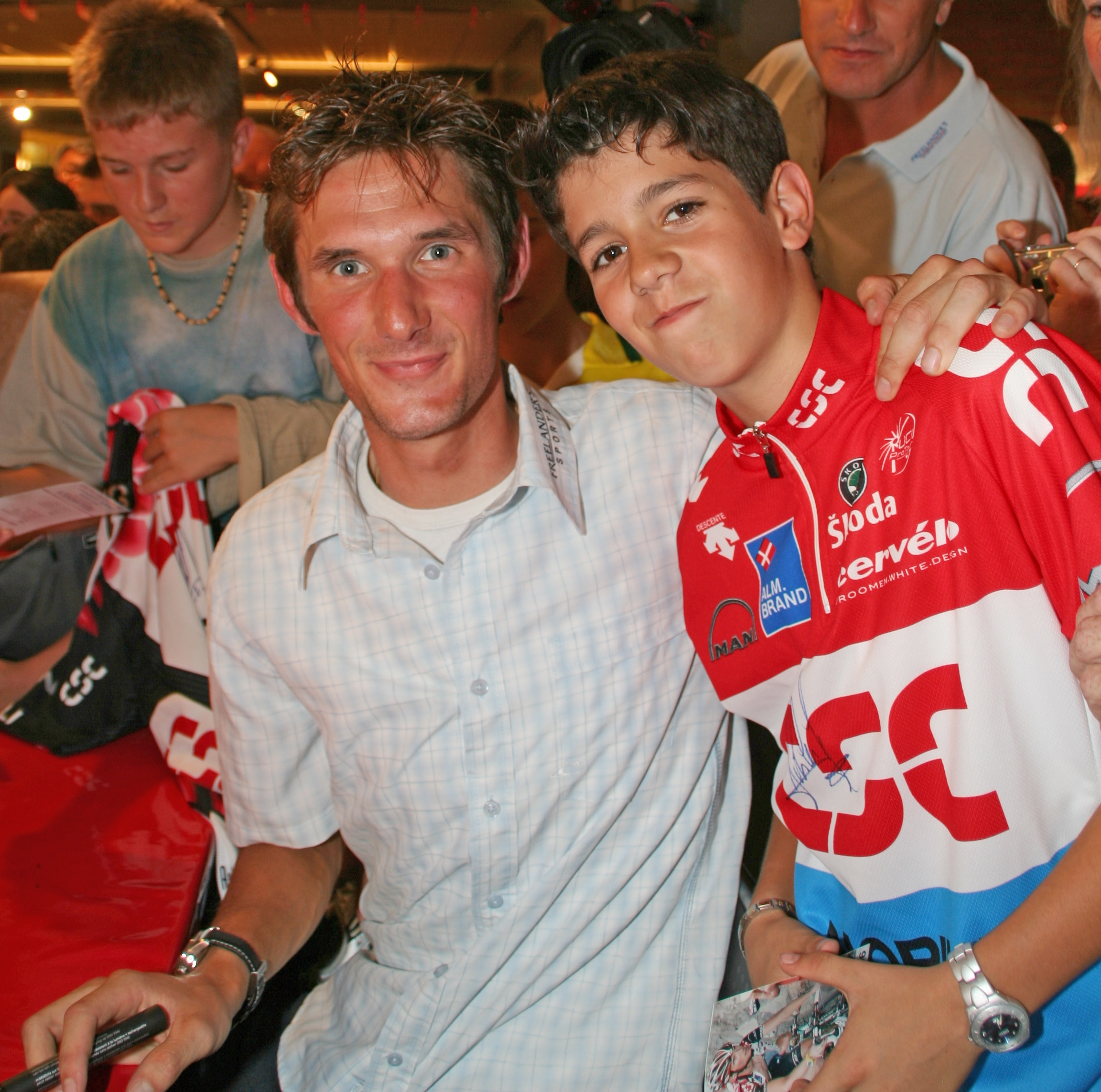 Fränk Schleck with a fan.